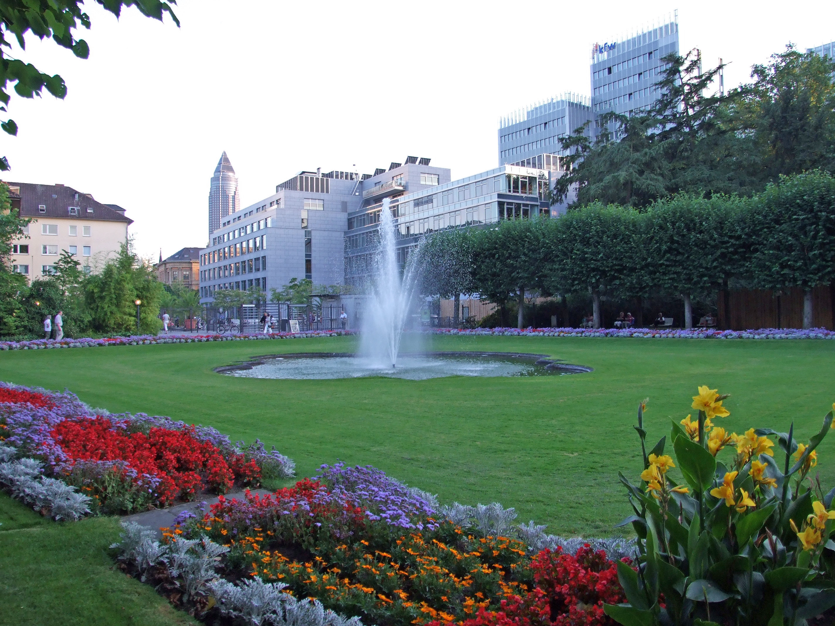 View to main entrance (towards south at "Palmengartenstrasse", near "Bockenheimer Landstrasse"), "Palmengarten" in Frankfurt am Main